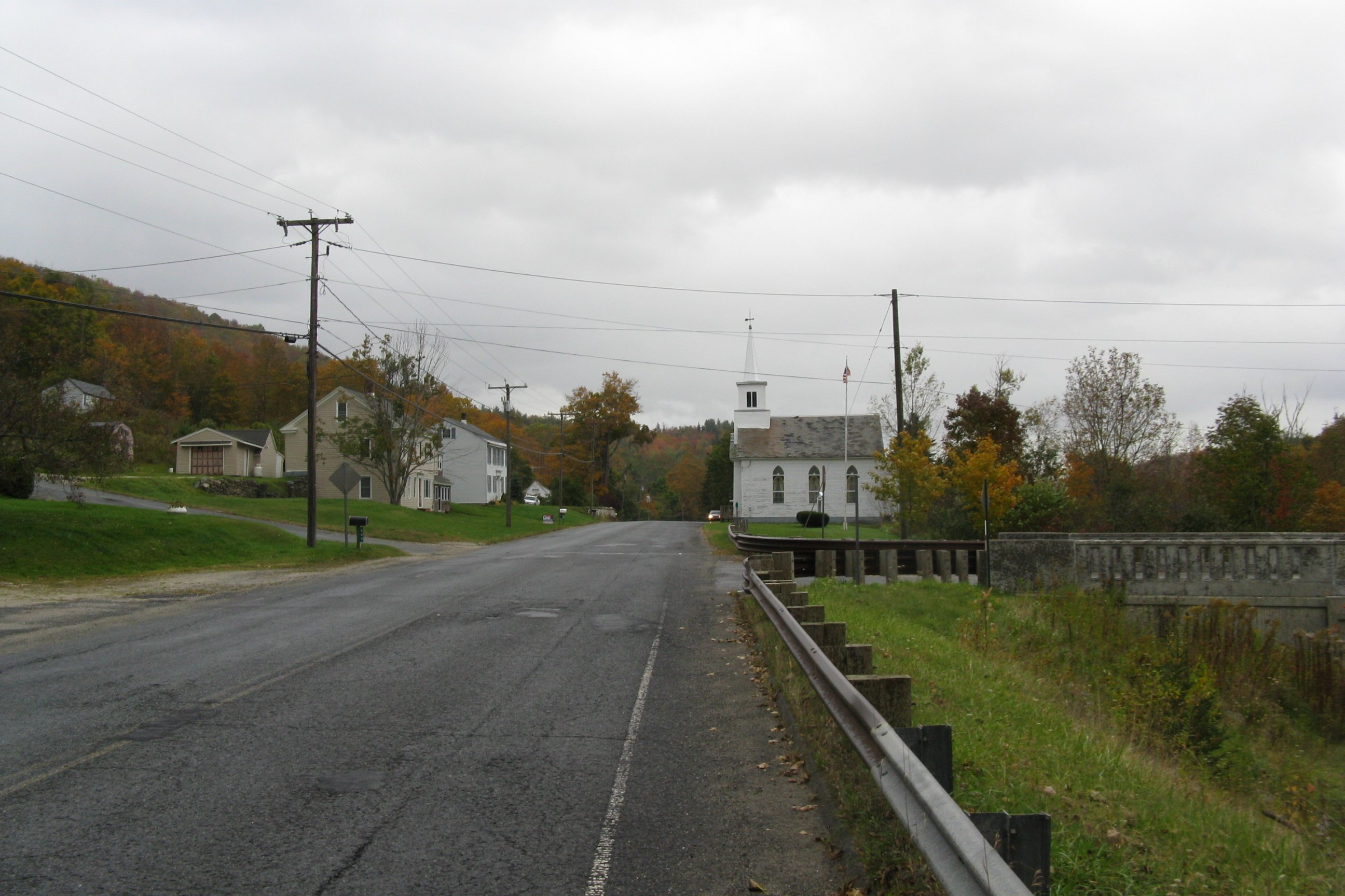 Eastbound Massachusetts Route 116, Savoy Massachusetts